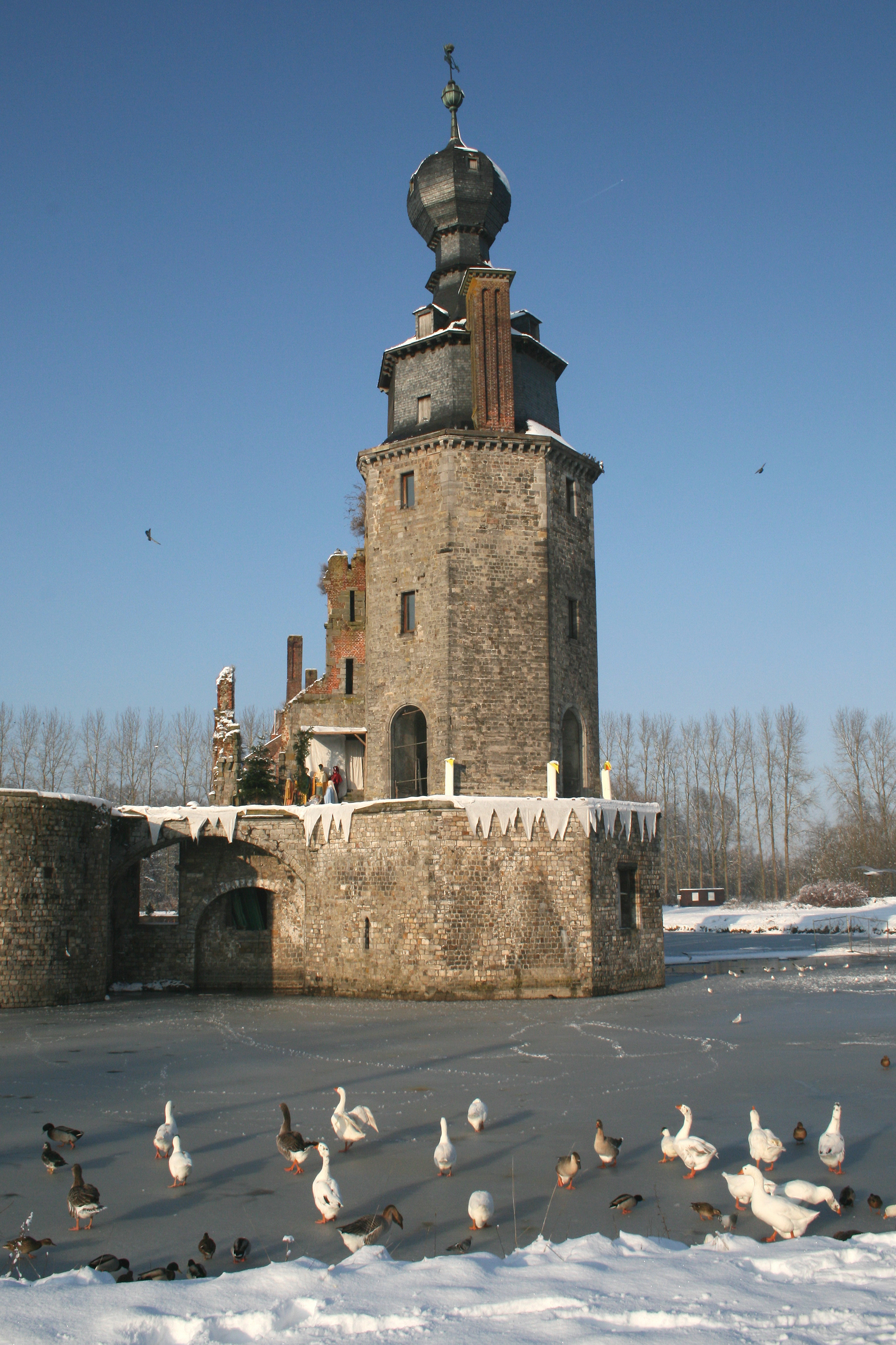 Havré (Belgium), the ruins of the castle in winter (XI/XVIIth centuries).